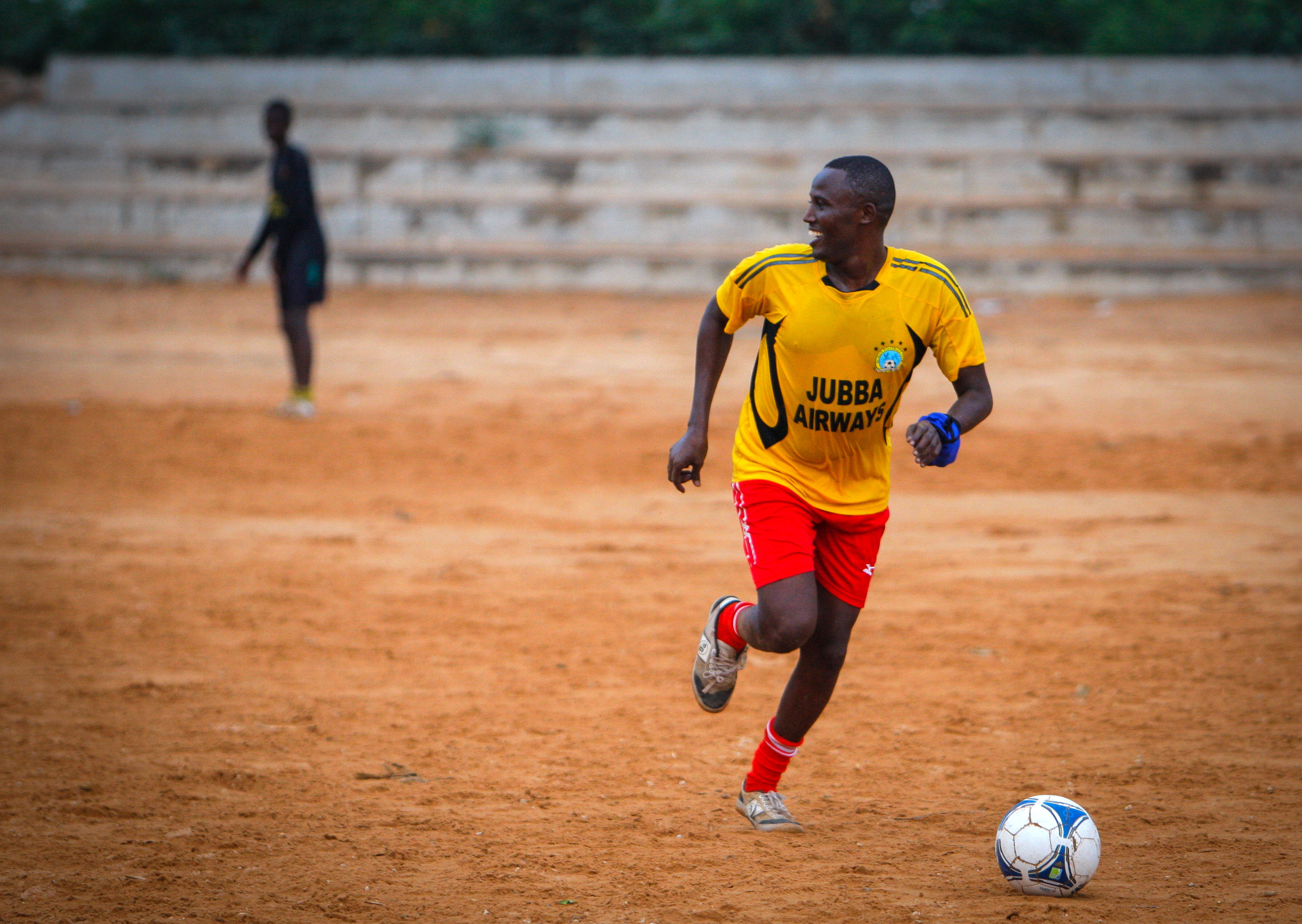 A player of Elman FC runs with the ball during a training session at their ground in the Hodan District of the Somali capital Mogadishu, ahead of their championship title defence when the new season kicks off in March this year. After two decades of near-constant conflict, Somalia is enjoying its longest period of peace and growing security since the Al-Qaeda-allied violent extremist group Al Shabaab was driven from Mogadishu in August 2011. Under the Shabaab's draconian rule, social pastimes and sports such as football were banned but residents of the city and elsewhere across Somalia in areas liberated by sustained operations by the Somali National Army (SNA) supported by troops of the African Union Mission in Somalia (AMISOM) are now enjoying their freedoms once again. On January 19, Africa’s top football teams will meet in South Africa to contest for the continent’s most prestigious football title - the African Nations Cup – and although Somalia has never taken part due to insecurity and the hitherto ban on the playing and watching of football by Al Shabaab, the sport is once more growing in obvious evidence across the city and experiencing a surging revival of fortunes and popularity. AU-UN IST PHOTO / STUART PRICE.